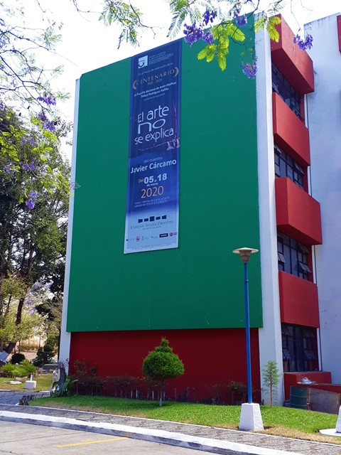 Frontispiece of guatemala's national school of plstica arts